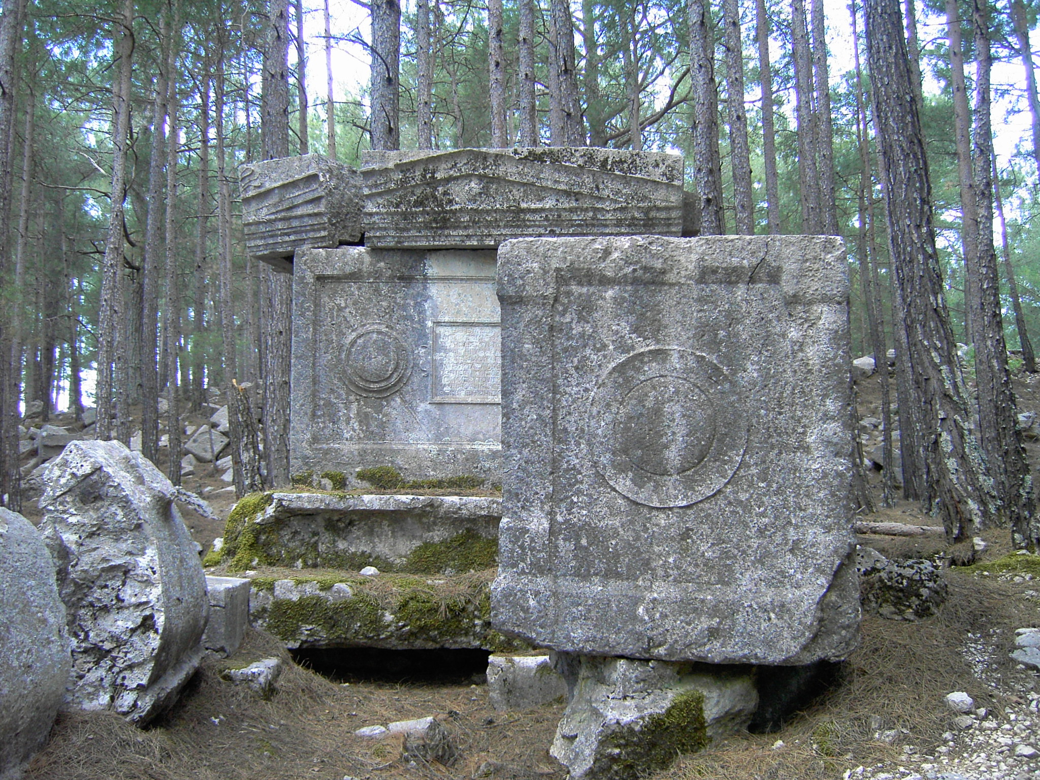 The famous sarcophagus of Idebessos with shields and spears